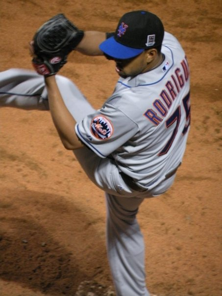 Description A picture of Francisco Rodriguez I took Opening Day in a game between the New York Mets and the Cincinnati Reds. DateApril 6 2009SourceI created this work entirely by myself.AuthorRyan556 (talk) 23:12, 13 April 2009 . . Ryan556 . . 453×604 (51 KB) A picture of Francisco Rodriguez I took Opening Day in a game between the New York Mets and the Cincinnati Reds.